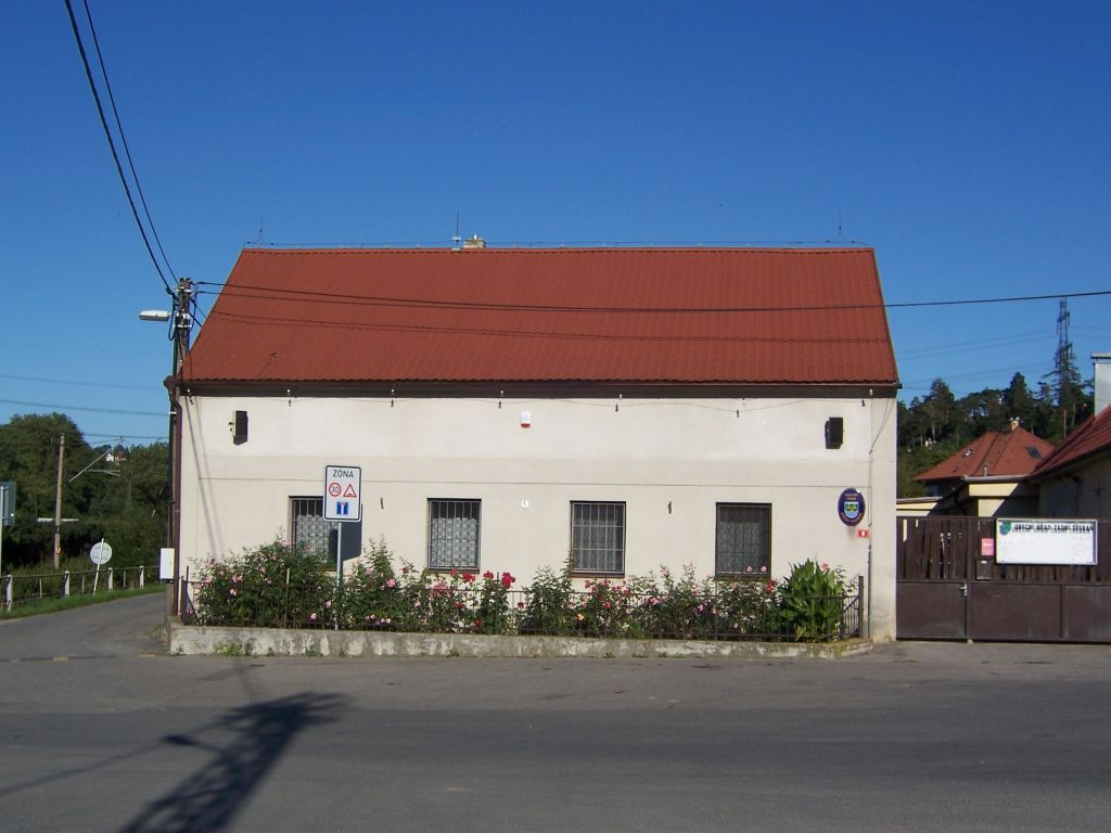 Zadní Třebaň